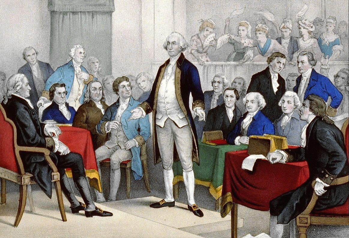 George Washington being promoted to Major general by Continental CongressDuring the Revolutionary War, the Continental Congress appointed and promoted twenty-nine officers to major general, the highest rank under Washington.[3] During the eight year war, there were four key events that caused Congress to name new major generals: the initial formation of the Continental Army, the expanding British invasion threat of 1776, the need for a professional army in 1777 and 1778, and lastly the later years of the war and the need to recognize state contributions and meritorious service. Bitter promotion controversies among the generals and Congress occurred during each of these periods. [3]Service and promotion dates and rank are from Francis B. Heitman, Historical Register of Officers of the Continental Army During the War of the Revolution (Baltimore: Clearfield, 1982). Currier & Ives, 1876. (Library of Congress)